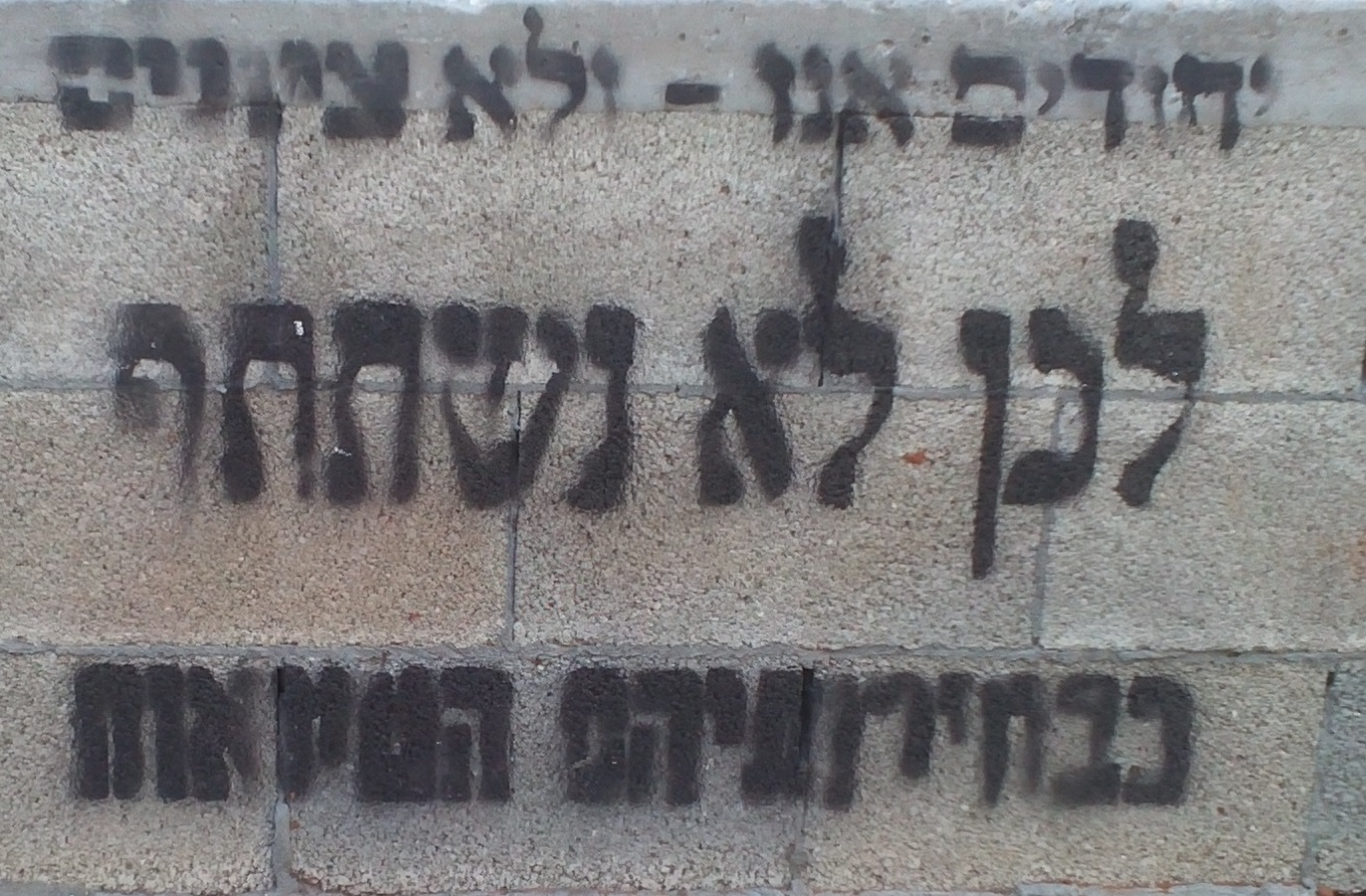 Graffiti against votes in Israel